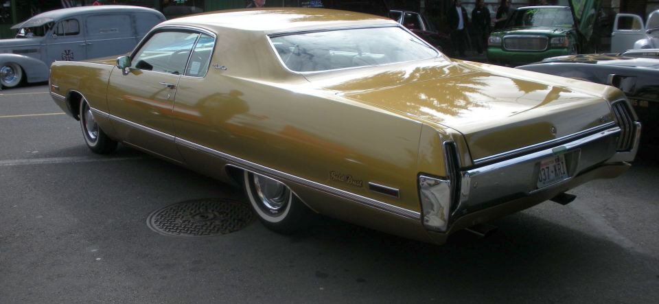 Photo taken at the Greenwood Car Show in Seattle Washington.